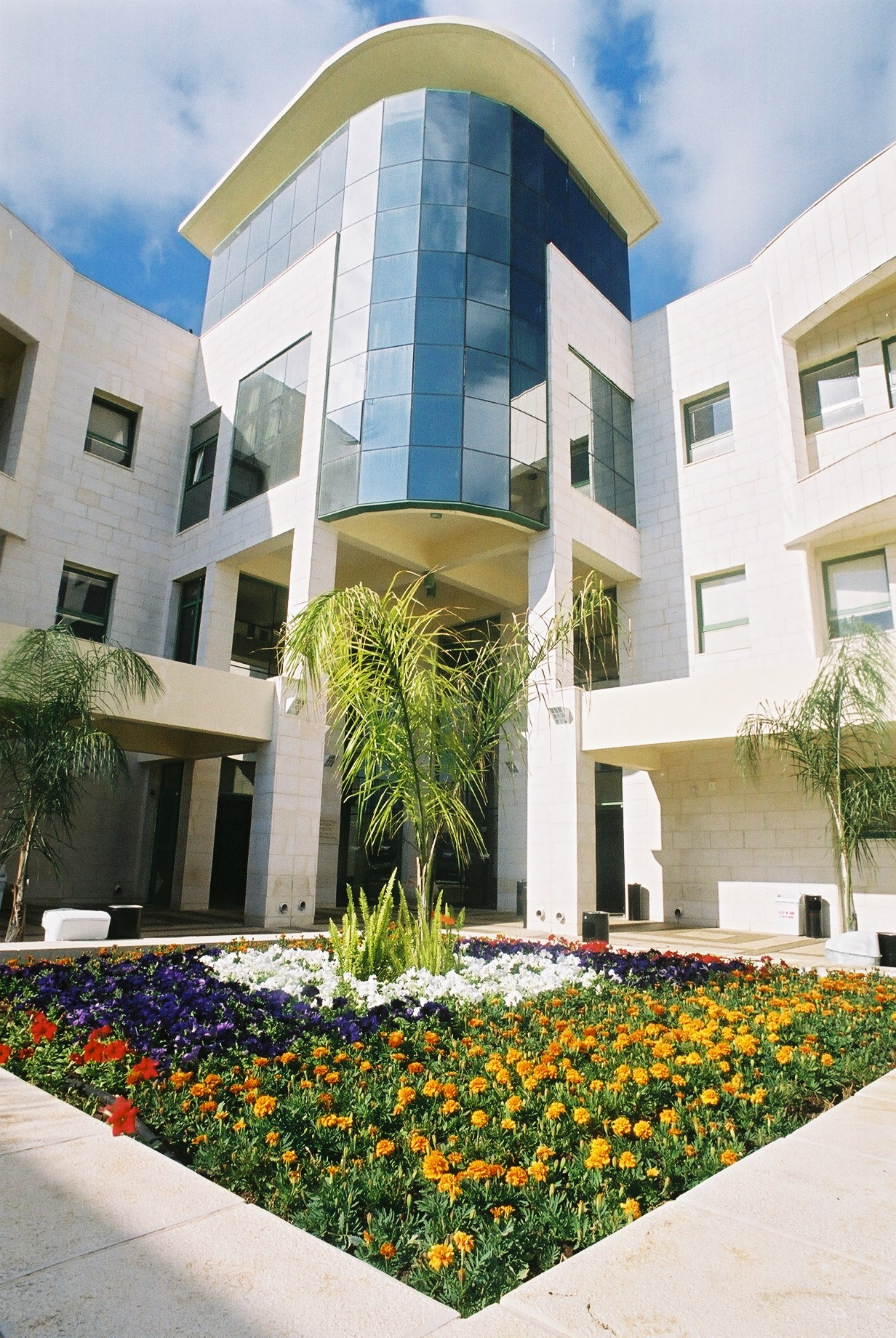 entrance to the "M" building